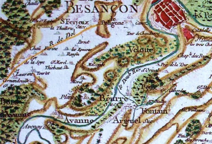 Cassini Map of Besançon-Planoise (1780).